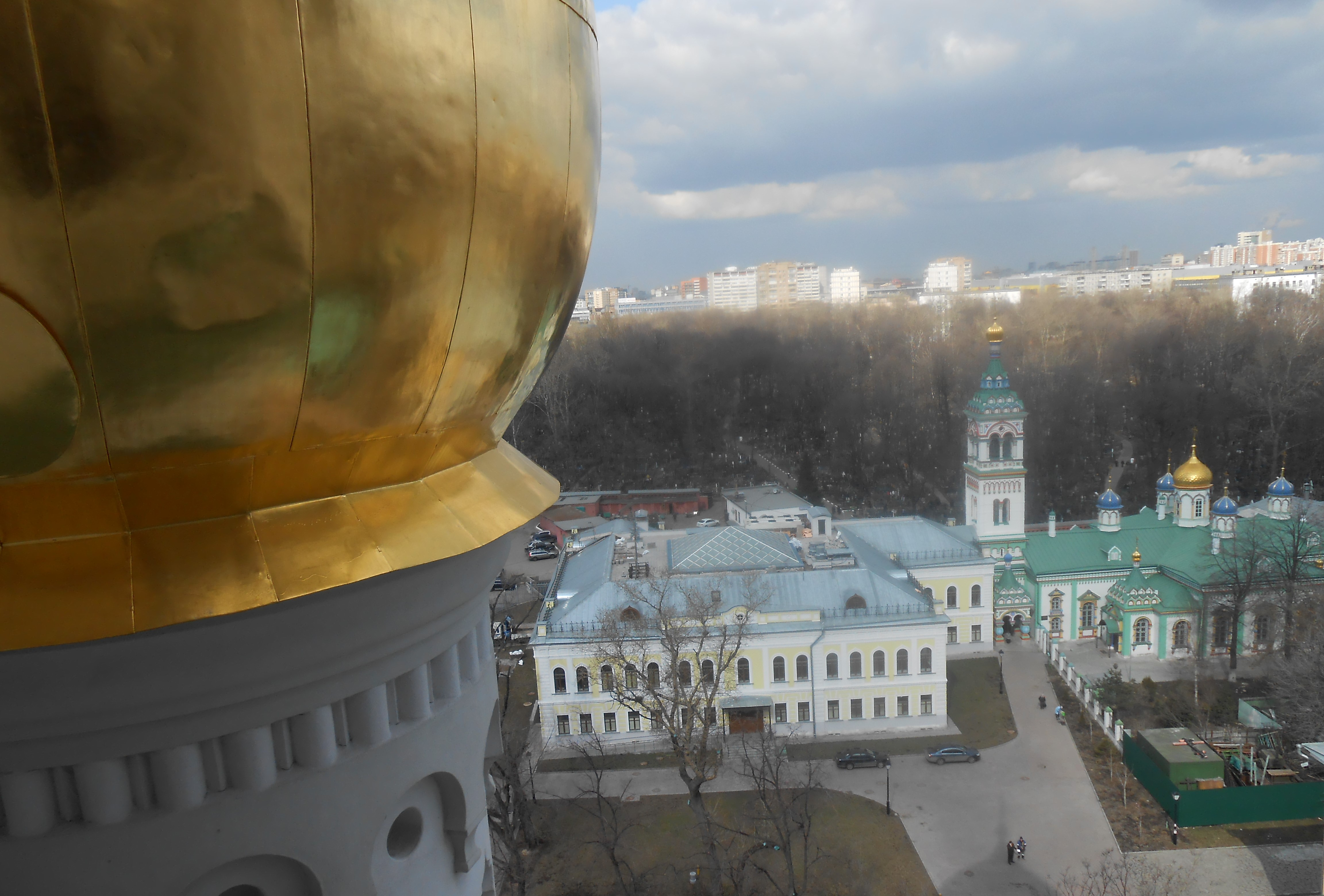 Вид с Рогожской колокольни